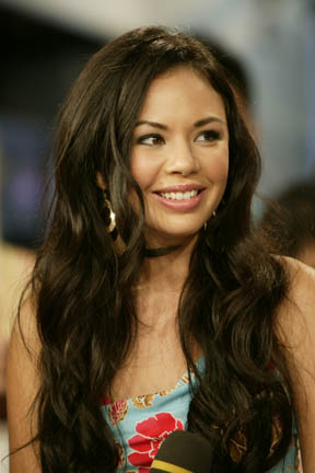 The cast of the 2007 film Bratz, at MuchMusic for a MuchOnDemand episode.